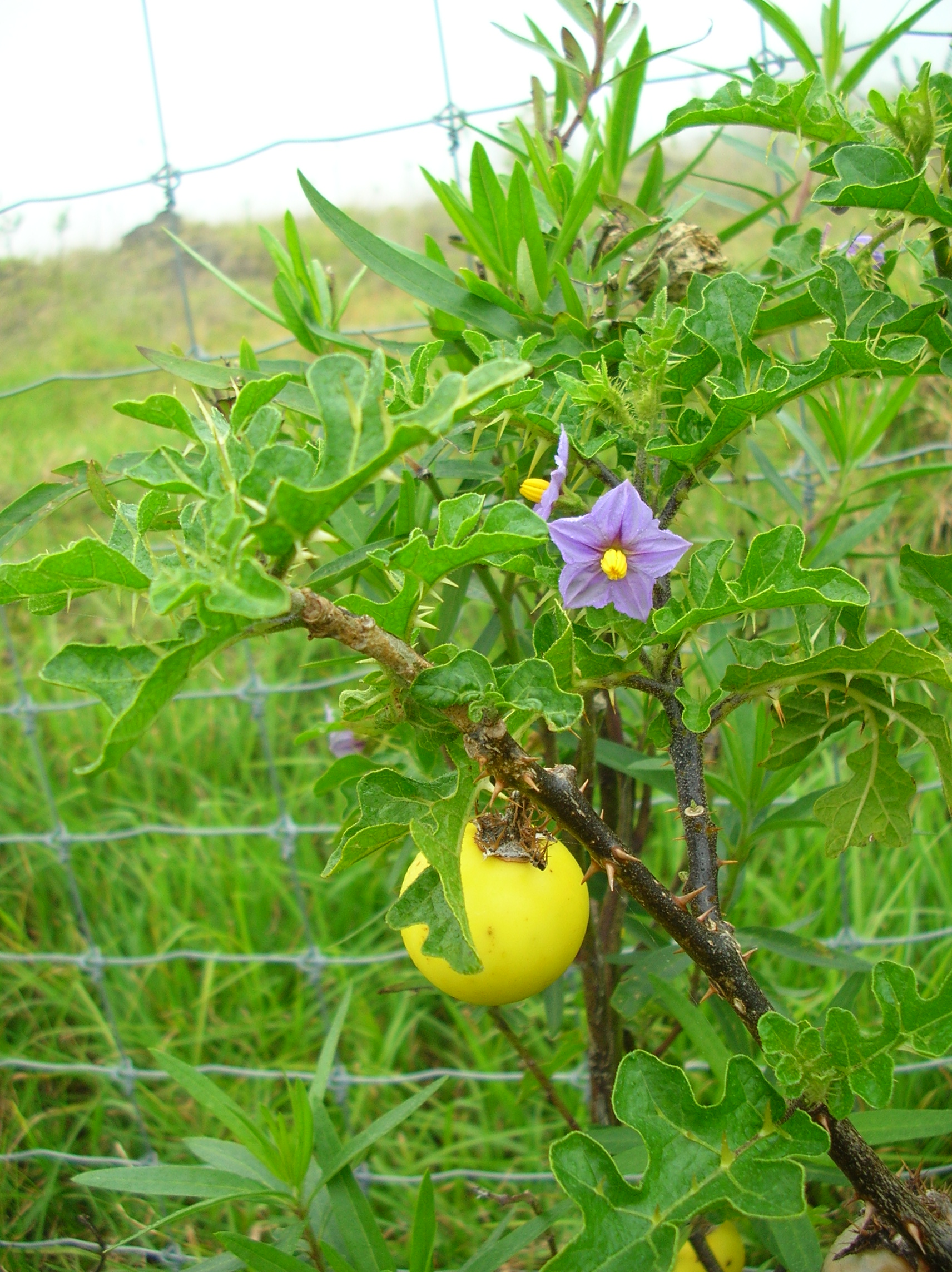 Solanum linnaeanum (flowers and fruit). Location: Maui, Auwahi